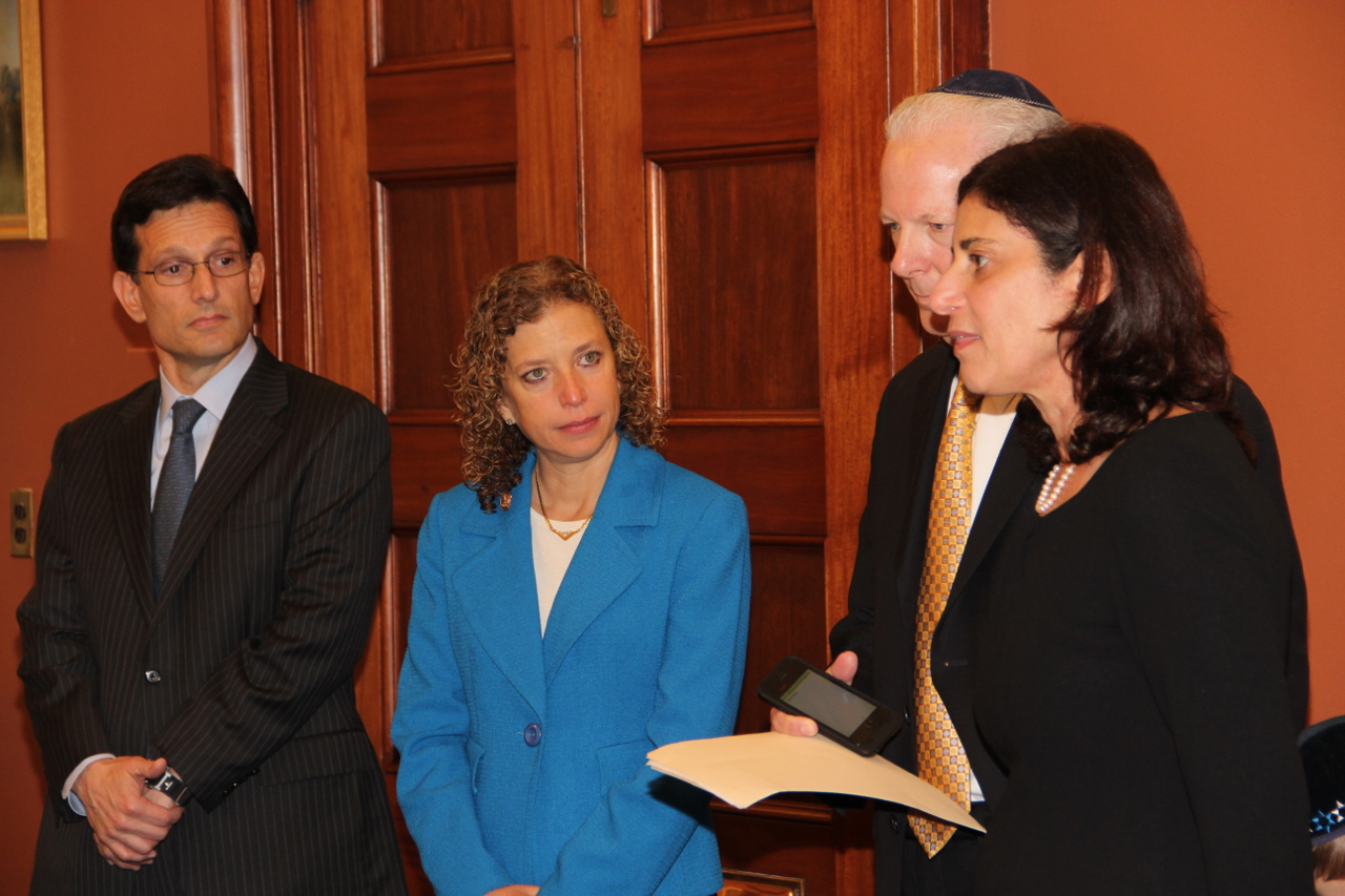 House Majority Leader Eric Cantor, left, Democratic National Committee Chair Debbie Wasserman Schultz, second from left, listen as Sheryl and Tuly Wultz talk about the impact of prayer in the life of their son, Daniel Wultz, U.S. Capitol, May 1, 2014. Other information This image has been released by the owner to the public domain.